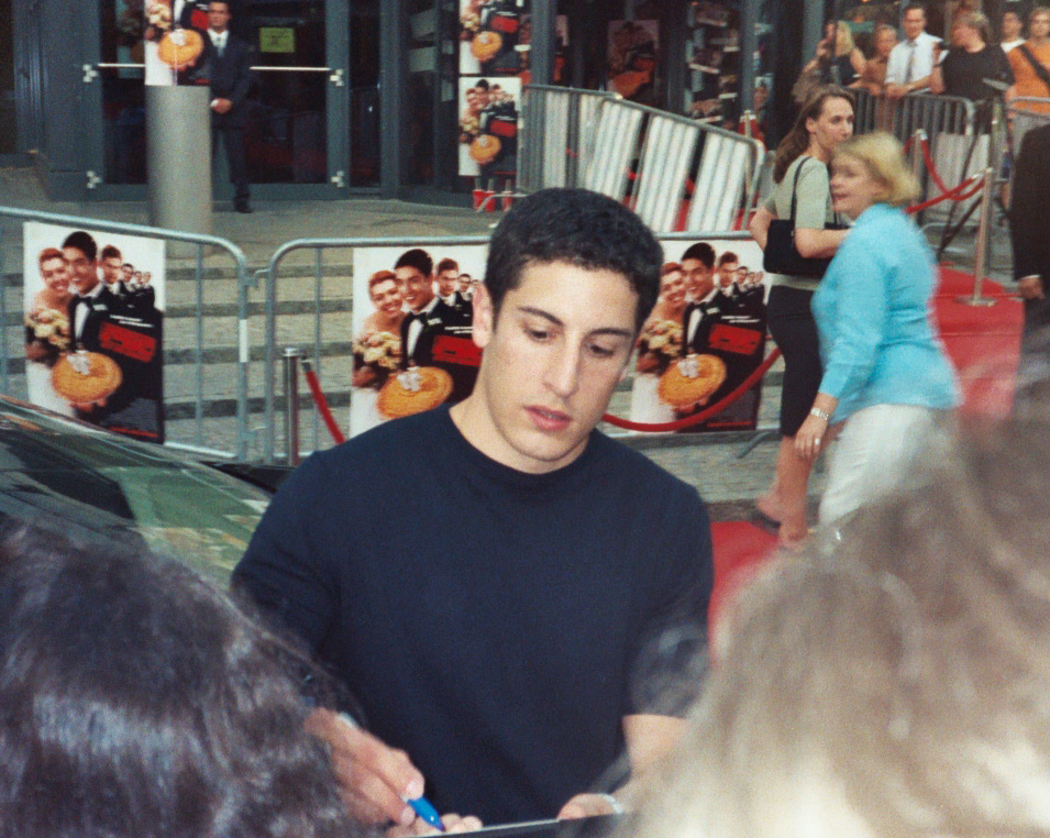 Jason Biggs, German Premiere of American Pie 3